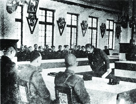 Photograph for the surrender ceremony for the Japanese troops in Shandong on December 27th, 1945 in the Shandong Provincial Library (Kuixu shucang, 奎虚书藏) Jinan.